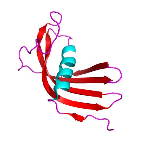 Crystal structure of aalivary cystatin from a tick. PDB entry 3L0R